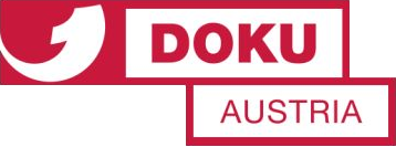 This is the Station Logo of kabel eins Doku Austria since September 22nd 2016